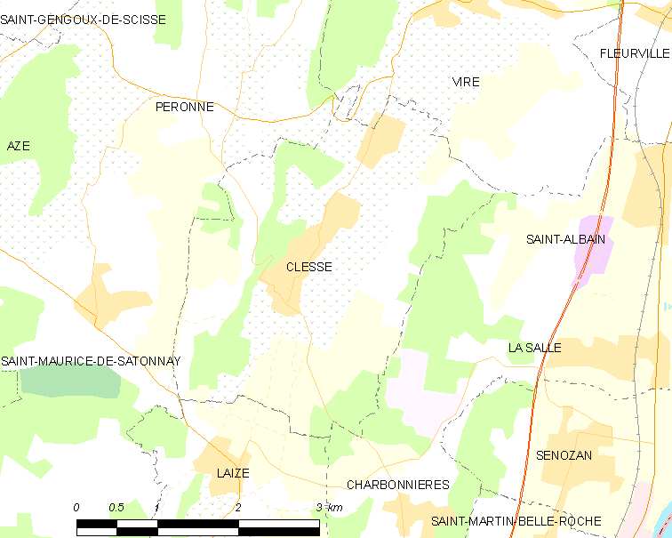 Map of French municipality